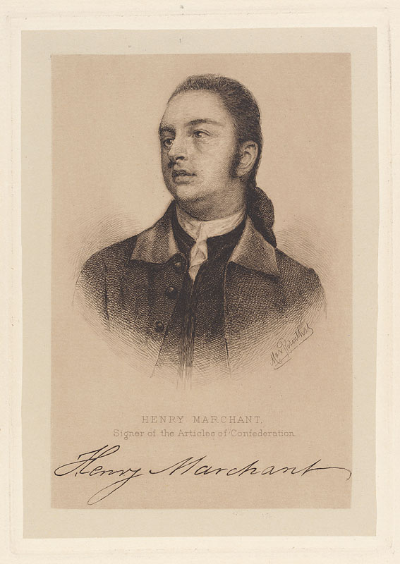 Henry Marchant (1741-1796)